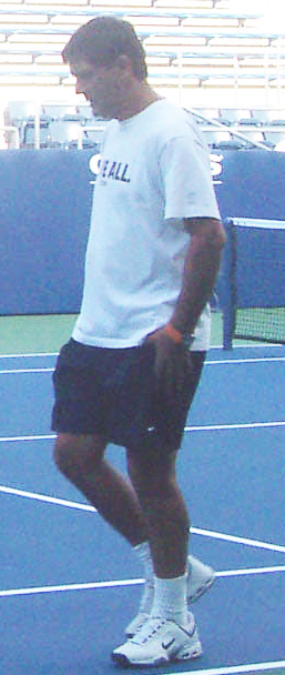 Toni Nadal, the uncle of Rafael Nadal, his coach, during practices at 2006 U.S. Open